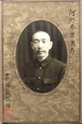 Cui Tingxian (1875－1942)